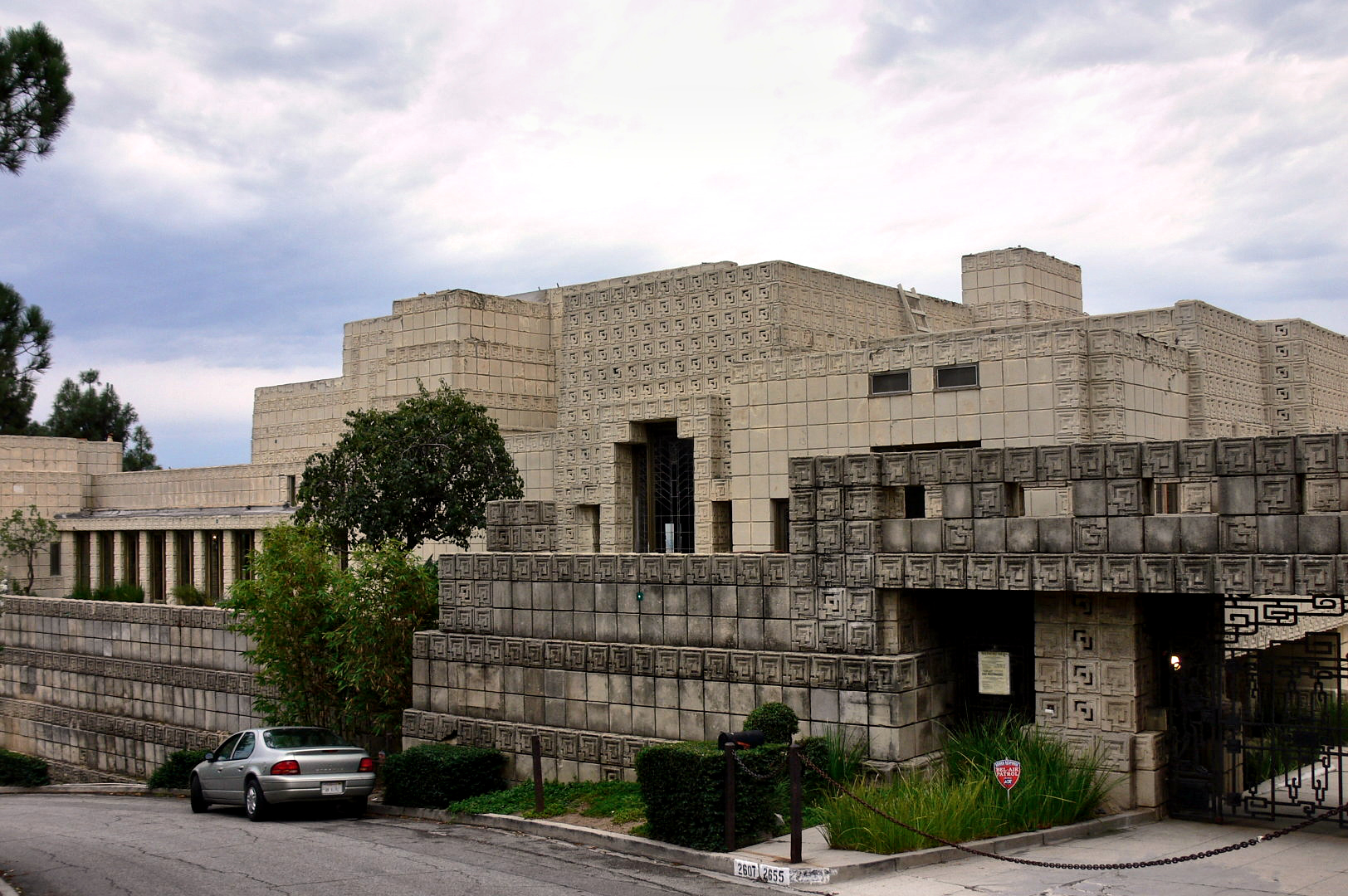 Front side of the Ennis House in Los Feliz, Los Angeles, California. The house was designed in 1923 by Frank Lloyd Wright for Charles and Mabel Ennis, and built in 1924. A Los Angeles Historic-Cultural Monument located at 2655 Glendower Avenue. A "yellow tag" with the words "RESTRICTED USE ONLY" can be seen on the front gate. (The image has been scaled and digitally altered to obscure the license plate on the pictured automobile.)